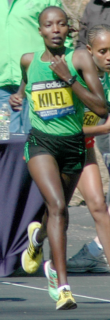 Caroline Kilel, female winner of 2011 Boston Marathon near half way point after wellesley college scream tunnel but before wellesley square.